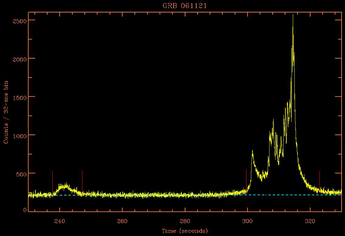 The intensity is measured in counts. Notably, a precursor event is noticeable around t=241.